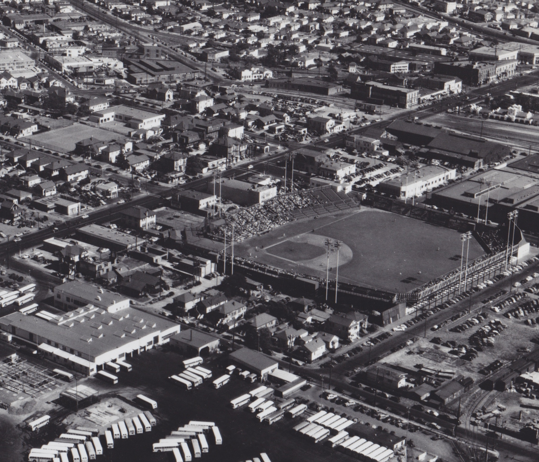 Aerial photograph of Oaks Park. View facing approximately ESE. The street between the ballpark and the bus yard is 45th (parallel to the 1st base line), and the street in the background in San Pablo Avenue (parallel to the 3rd base line). According to Transit Times (Feb 1975), this photograph was taken in August 1947.